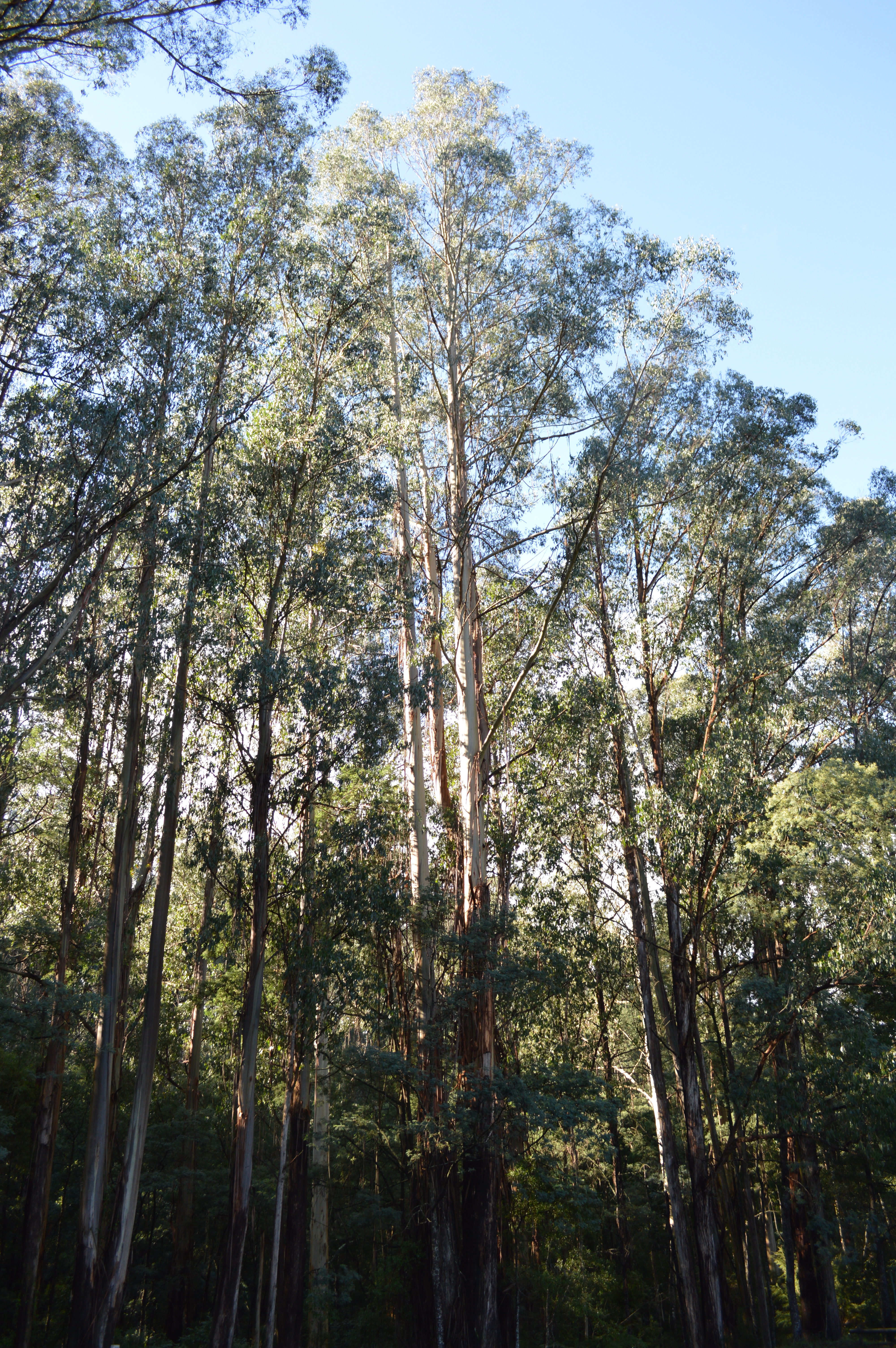 Mountain Ash near Powelltown, Victoria